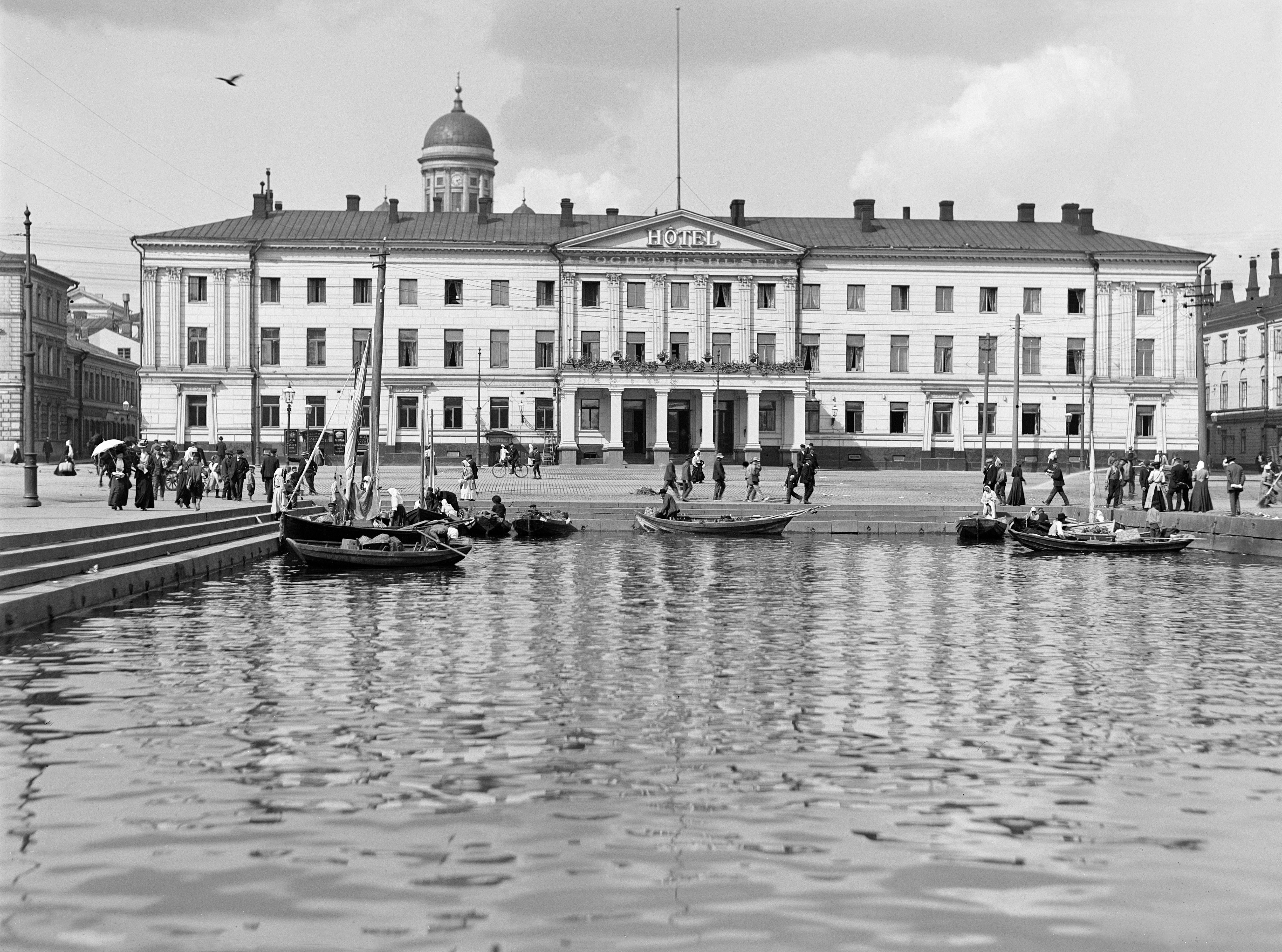 Hotel Seurahuone (now Helsinki City Hall) seen across Kolera-allas on Kauppatori. Glass negative.